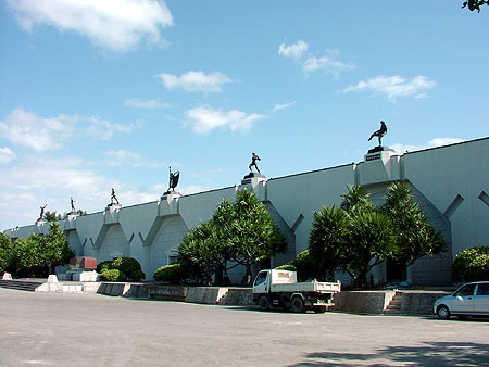 Okinawa Ikeda Peace Memorial Hall